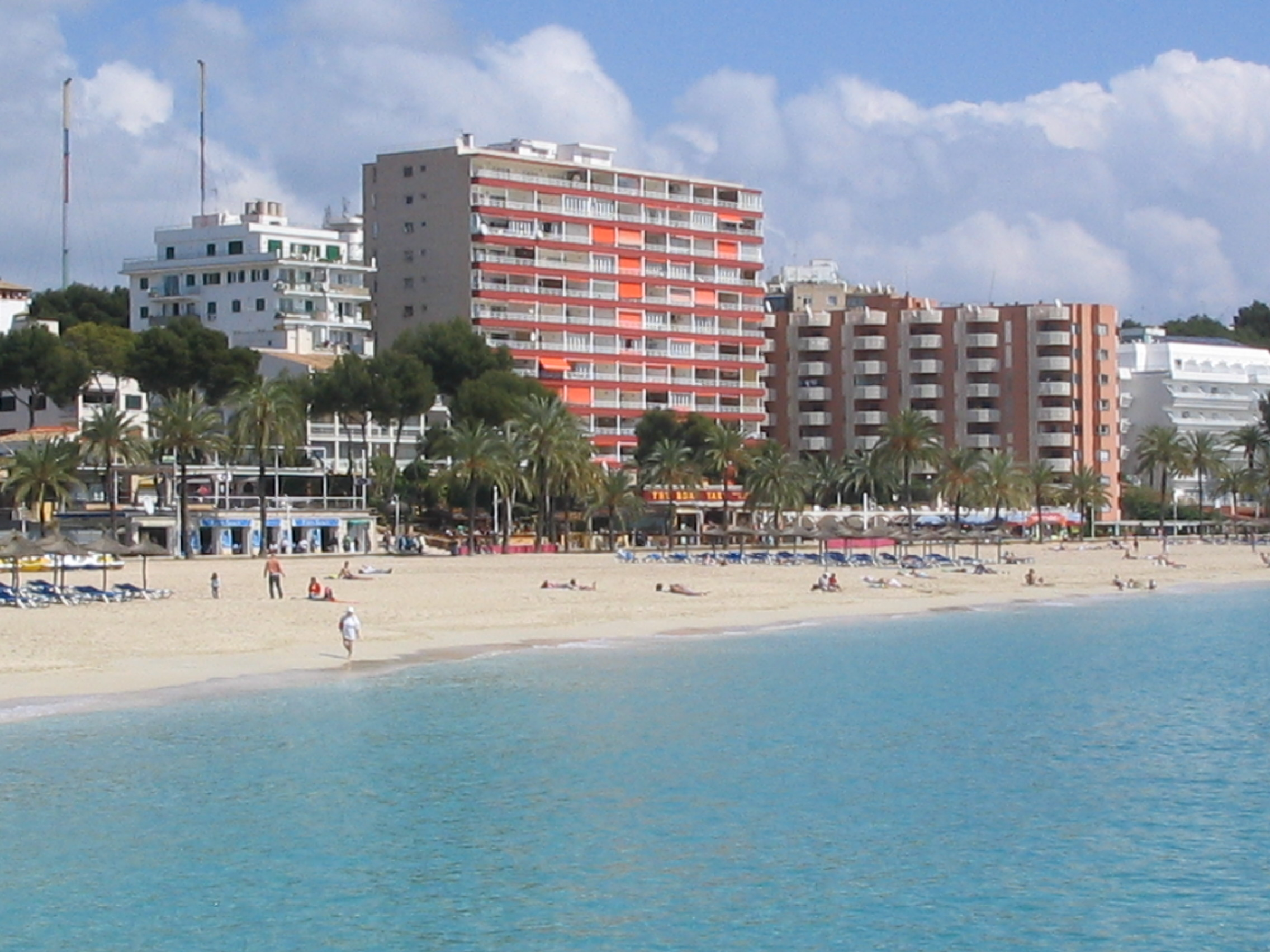 A spanish holiday resort called Magaluf in Mallorca.